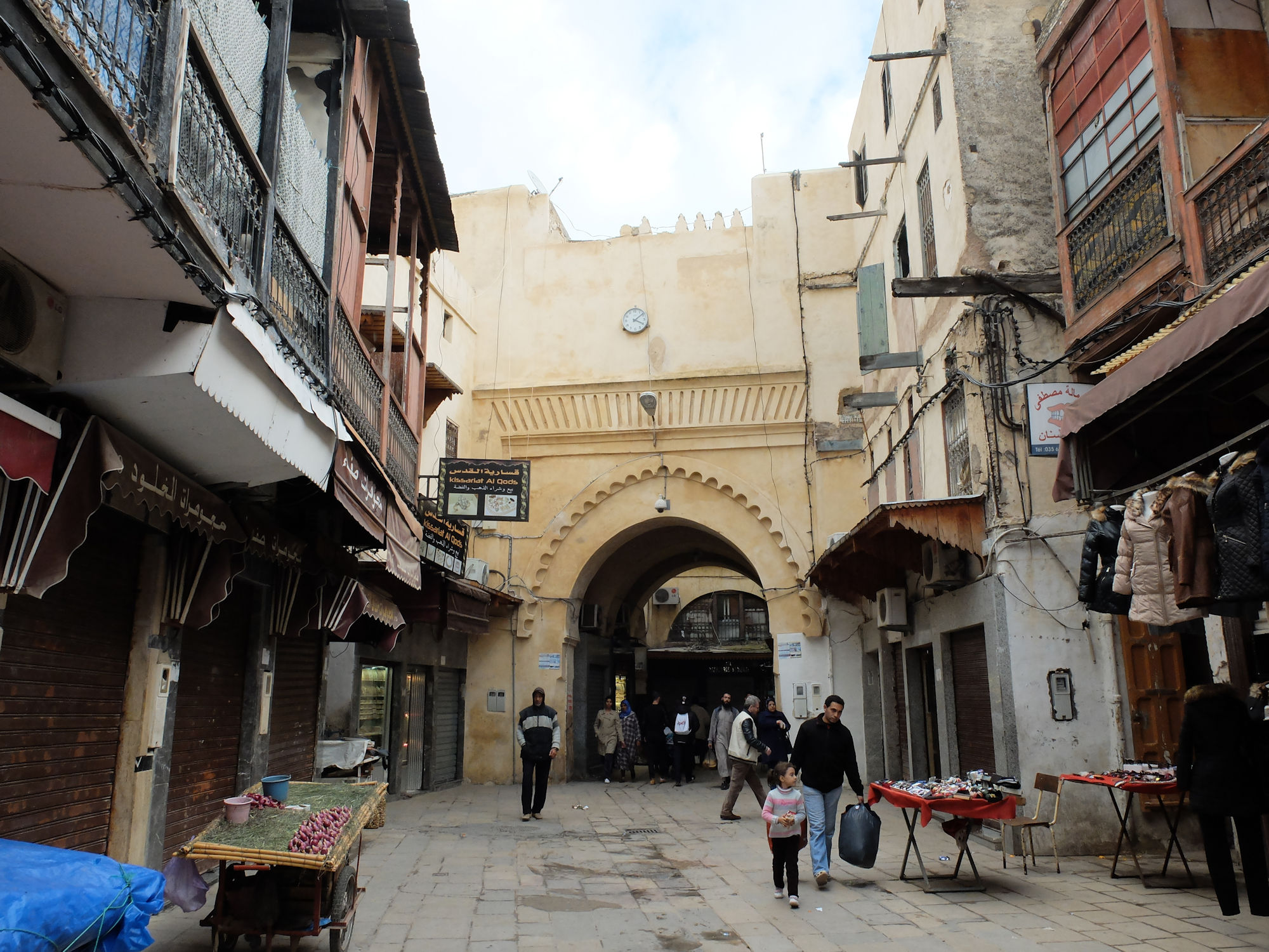 Bab Mellah, a gate in the Jewish Mellah of Fes el-Jdid.